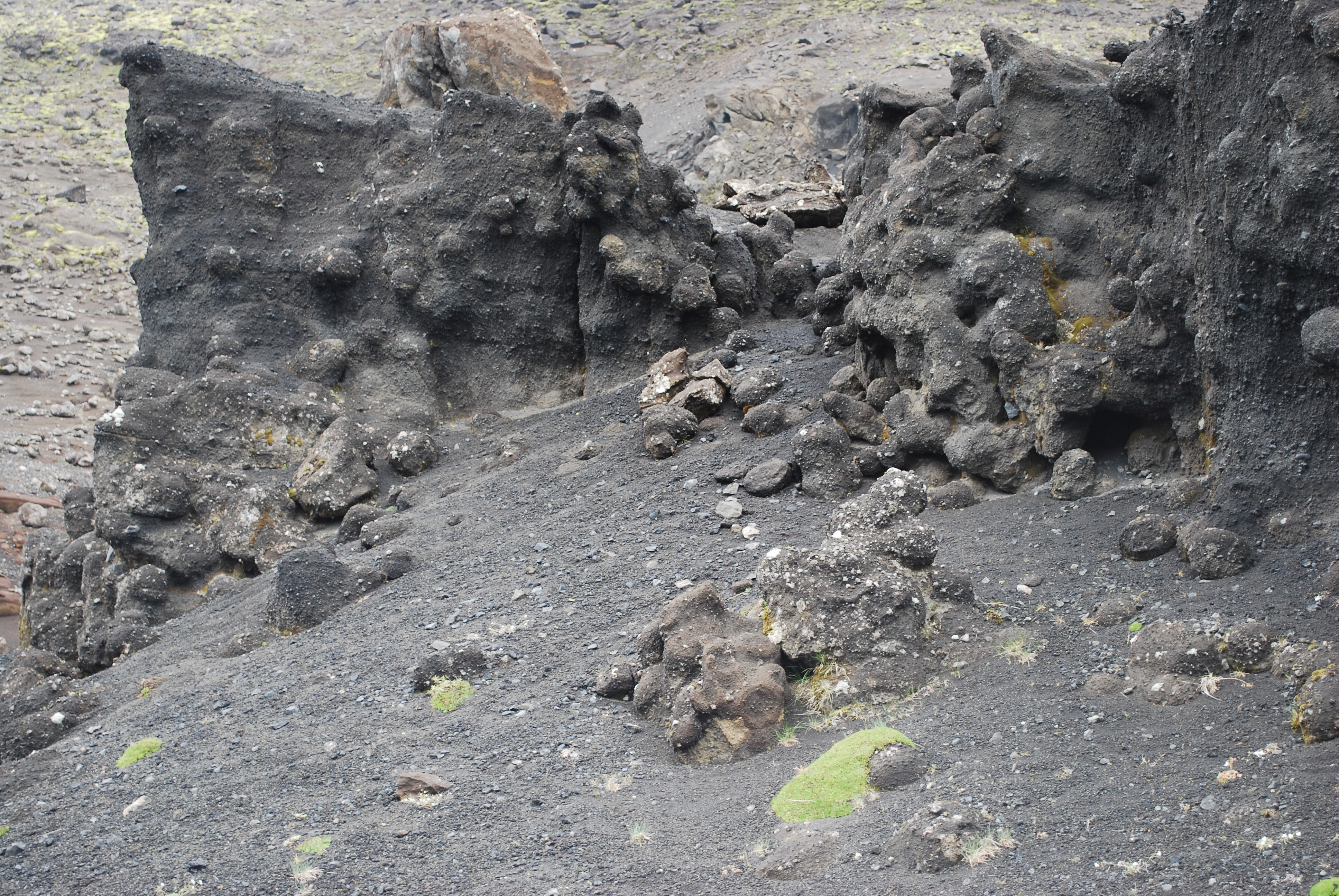 Sight to hyaloclastite near Laki volcano, Iceland